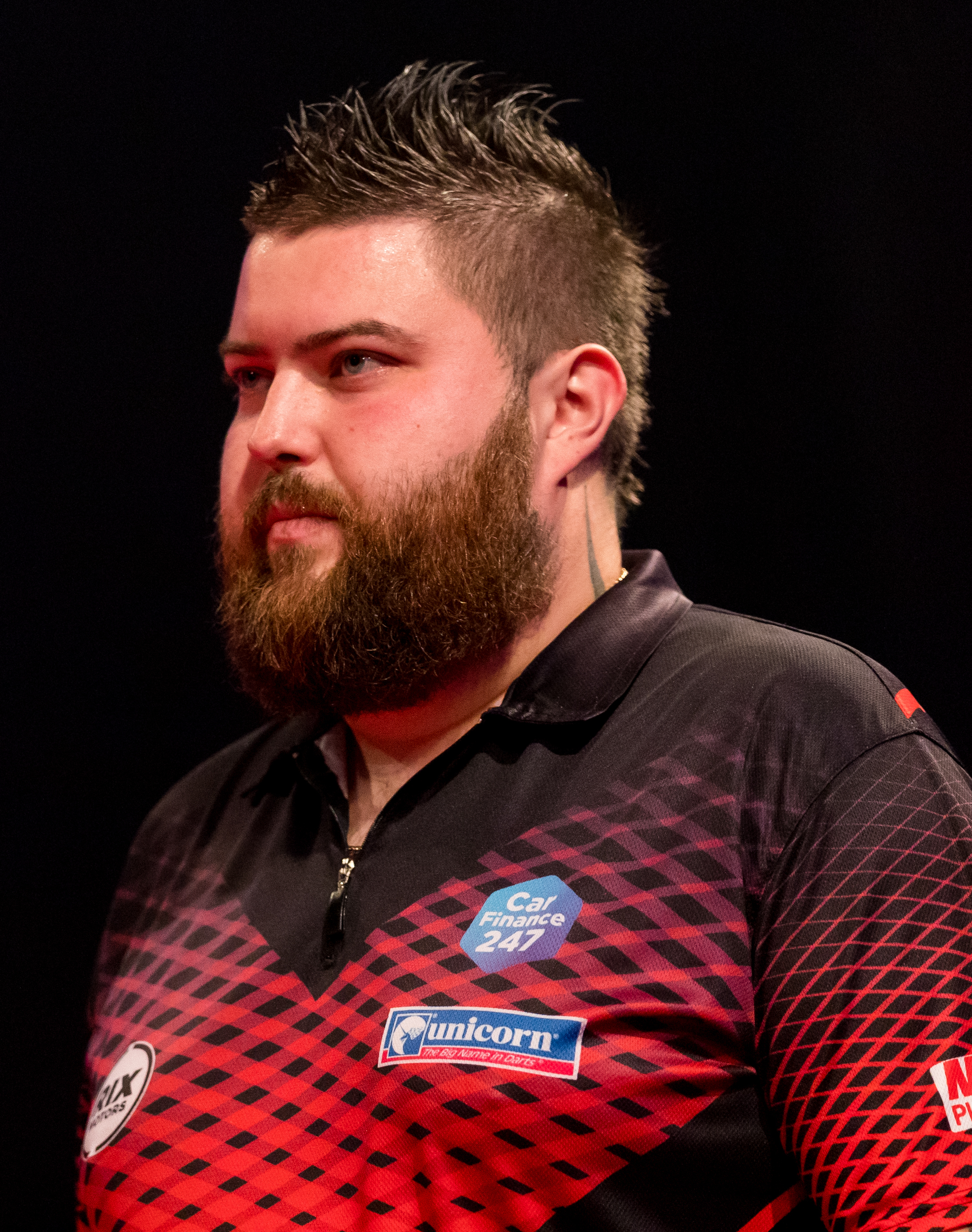 Michael Smith 6:3 Steve Lennon during PDC Europe Darts Matchplay at Maimarkthalle, Mannheim, Baden-Württemberg, Germany on 2019-09-06, Photo: Sven Mandel